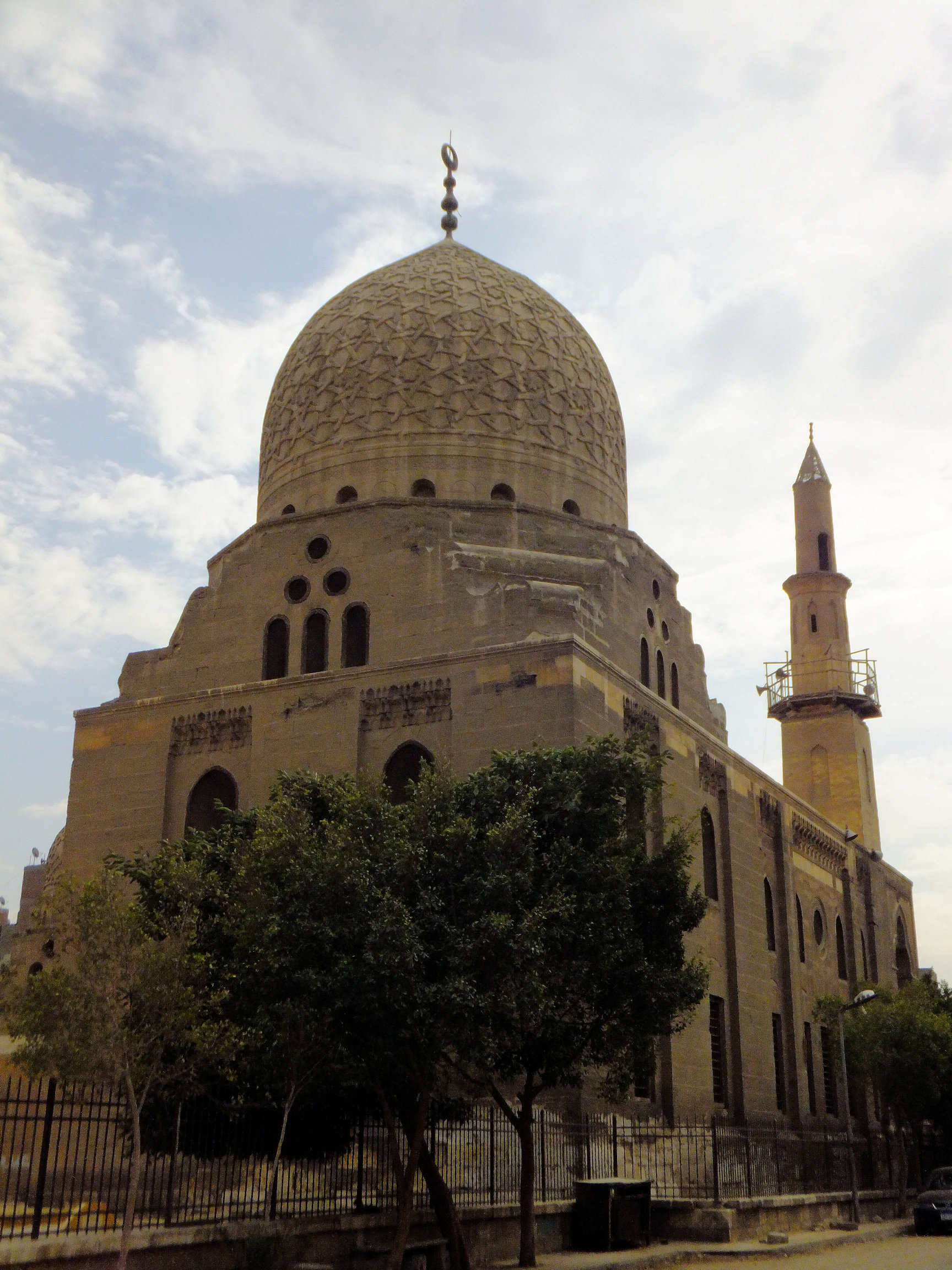 View of the Mausoleum of Barsbay in the Northern Cemetery, Cairo. (View from the north.) (PS: Same image as "Barsbay complex main mausoleum.jpg" (uploaded as Casual Builder), but adjusted for lighting/contrast, hopefully for better clarity in thumbnail format.)